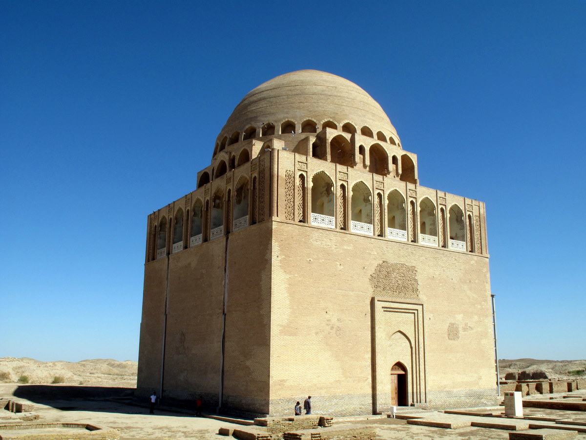 The mausoleum of Sultan Sanjar in the old oasis-city of Merv, Turkmenistan.